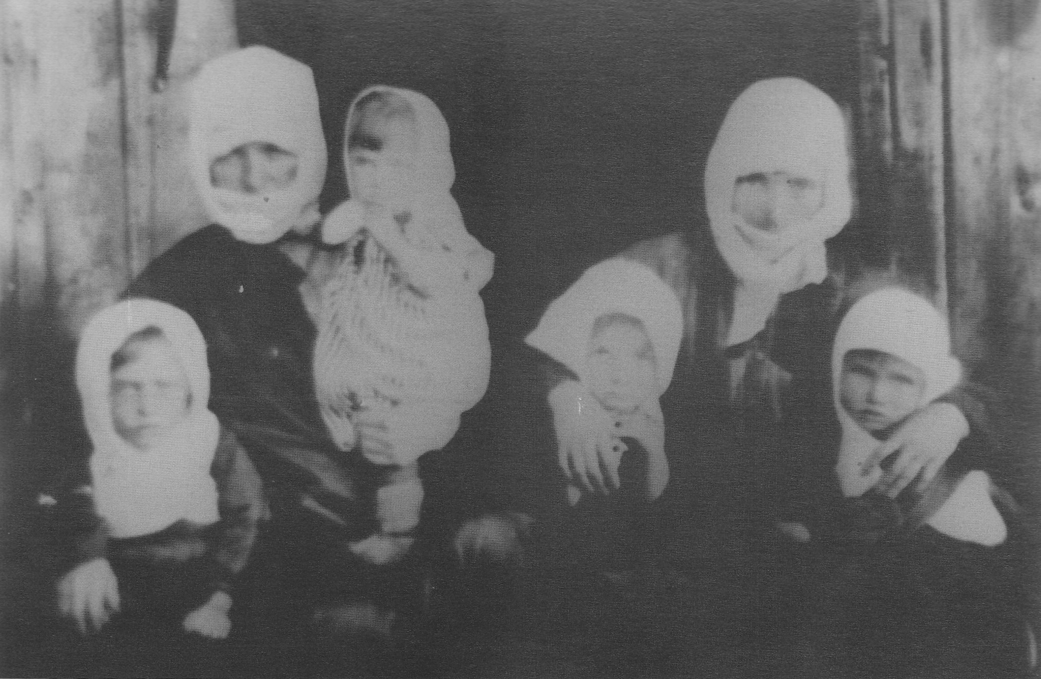 Women from the village of Trigrad - 1928